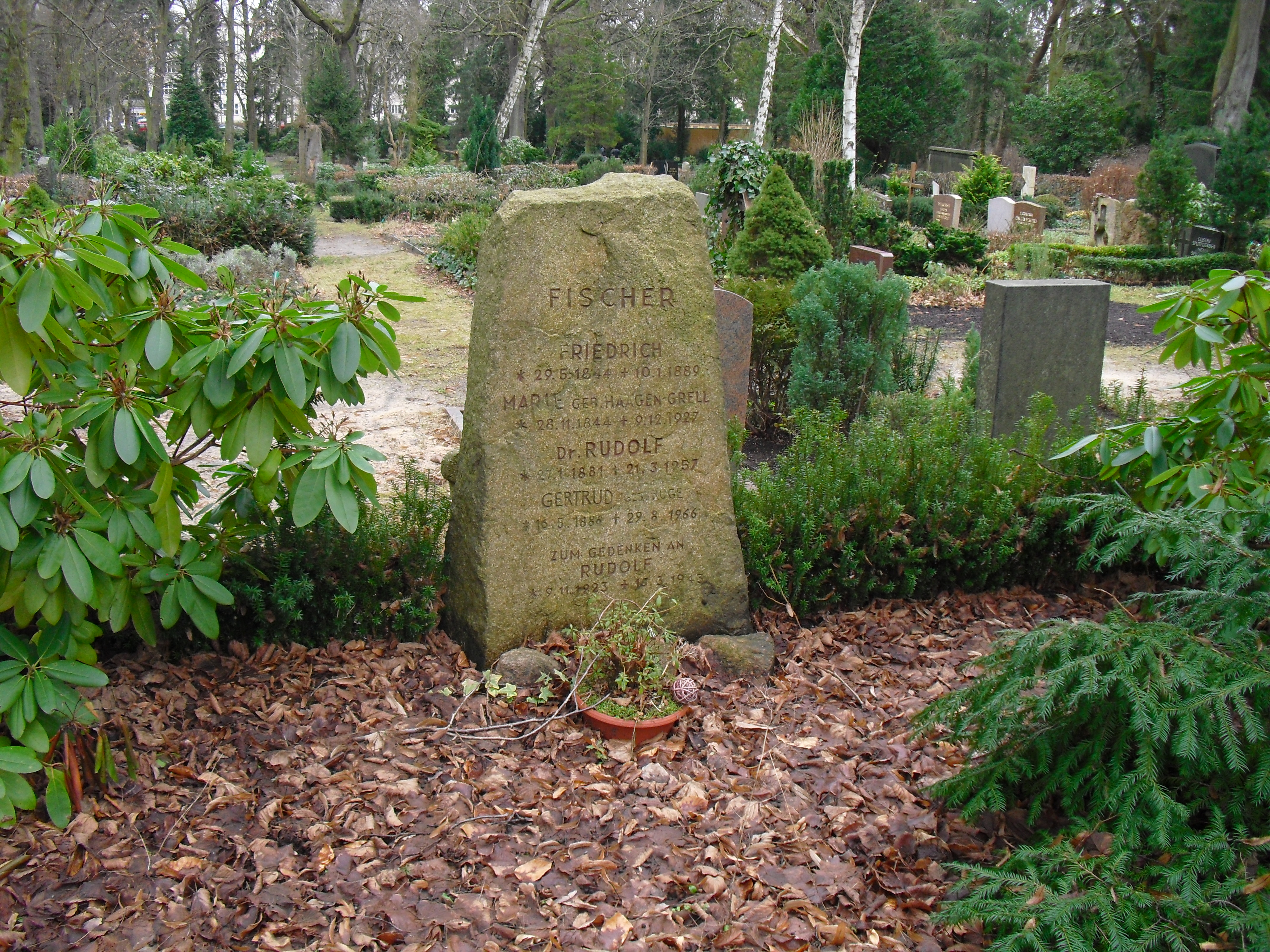 Grave of German chemist Rudolf Fischer in Friedhof Steglitz, Berlin-Steglitz.